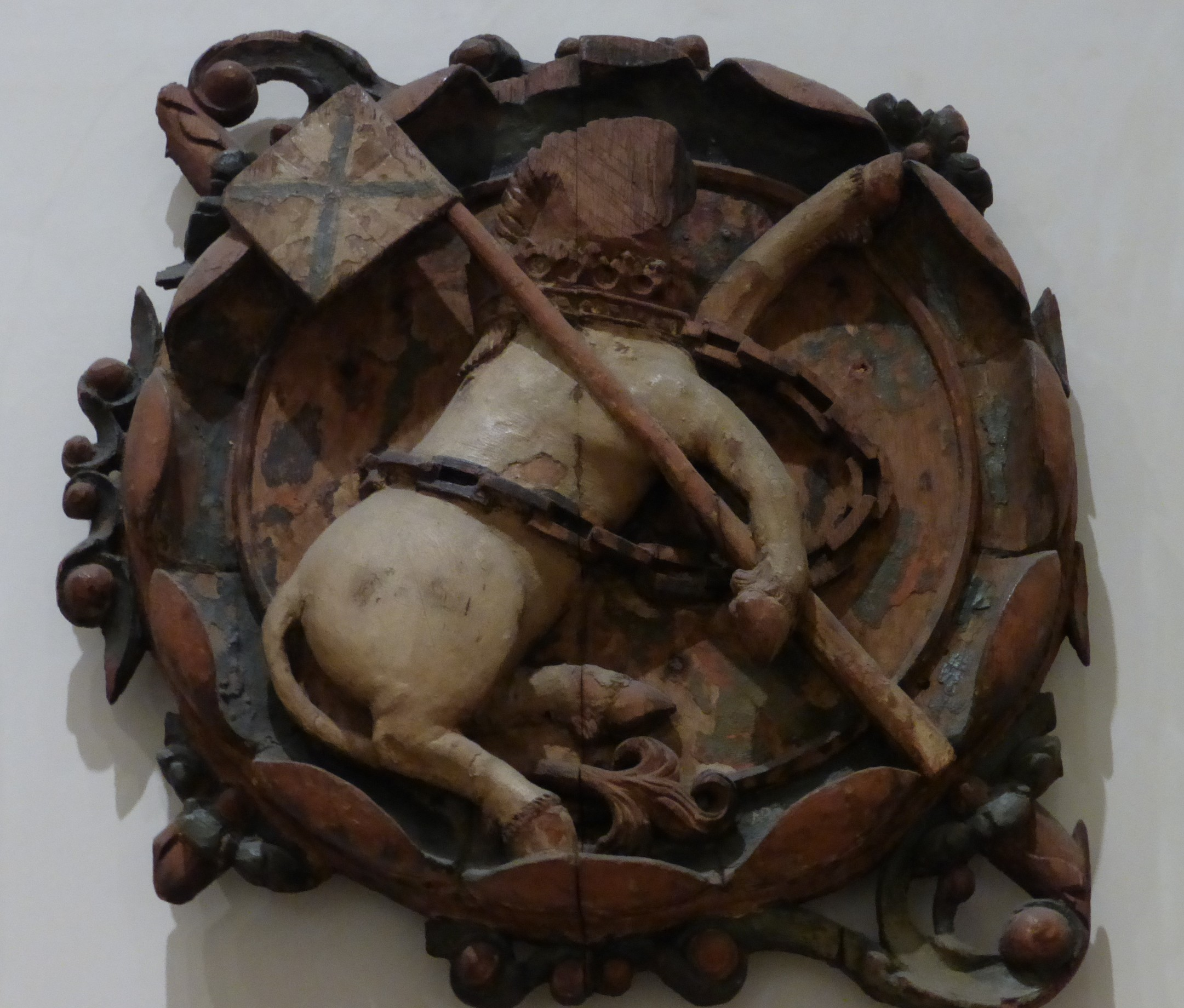 Linlithgow Palace boss showing a royal unicorn holding a flag symbolising the Union. A blue Scottish Saltire surmounts a red St. George's Cross of England. An exhibit in the National Museum of Scotland.